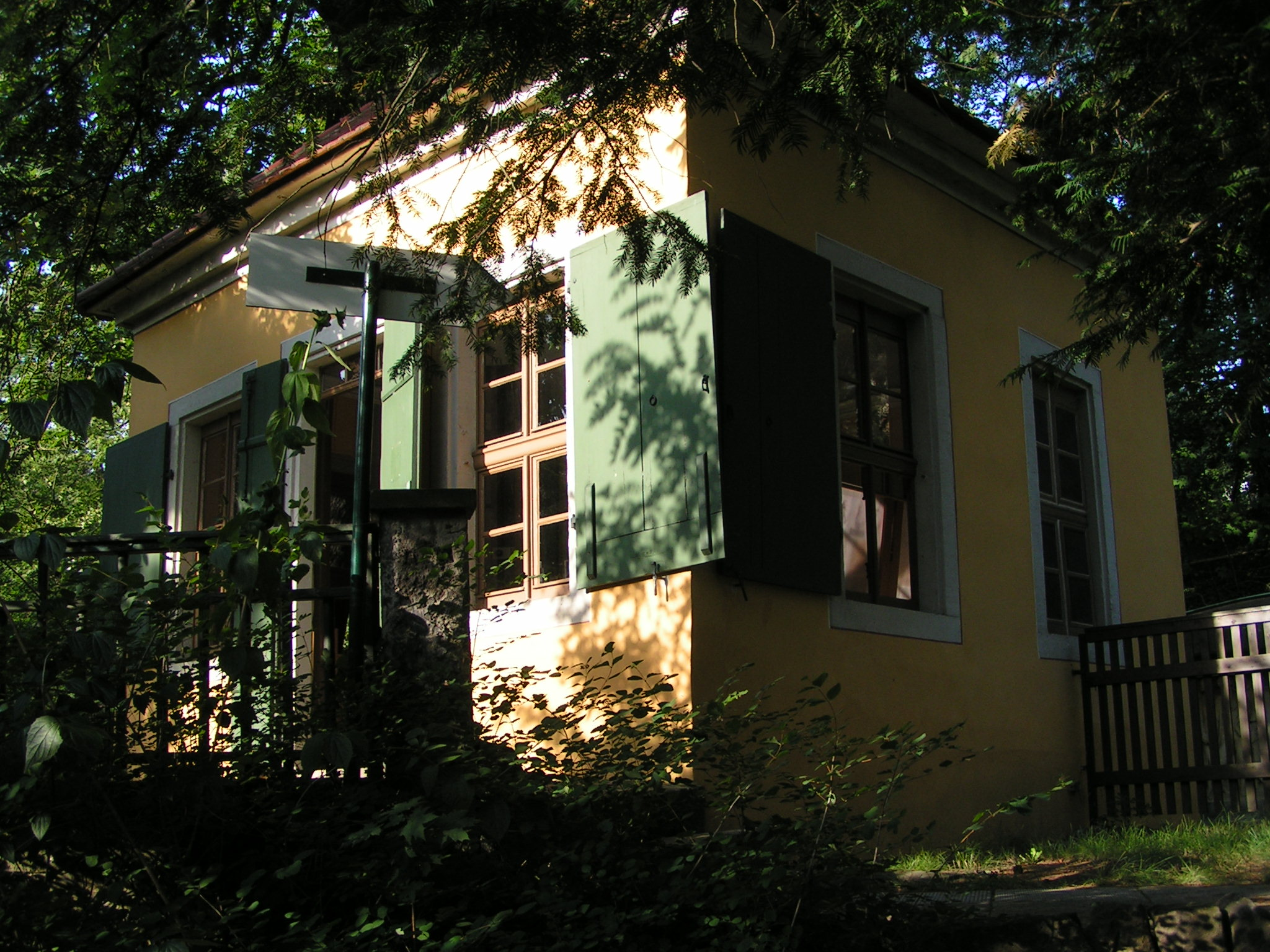 The Schiller Villa in Dresden, Saxony, Germany